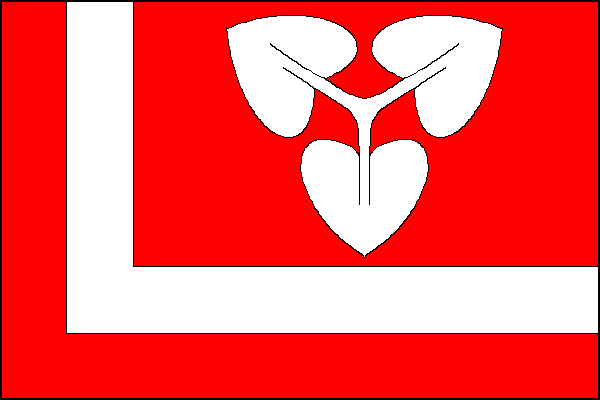 Municipal flag of Ledeč nad Sázavou town, Havlíčkův Brod District, Czech Republic.